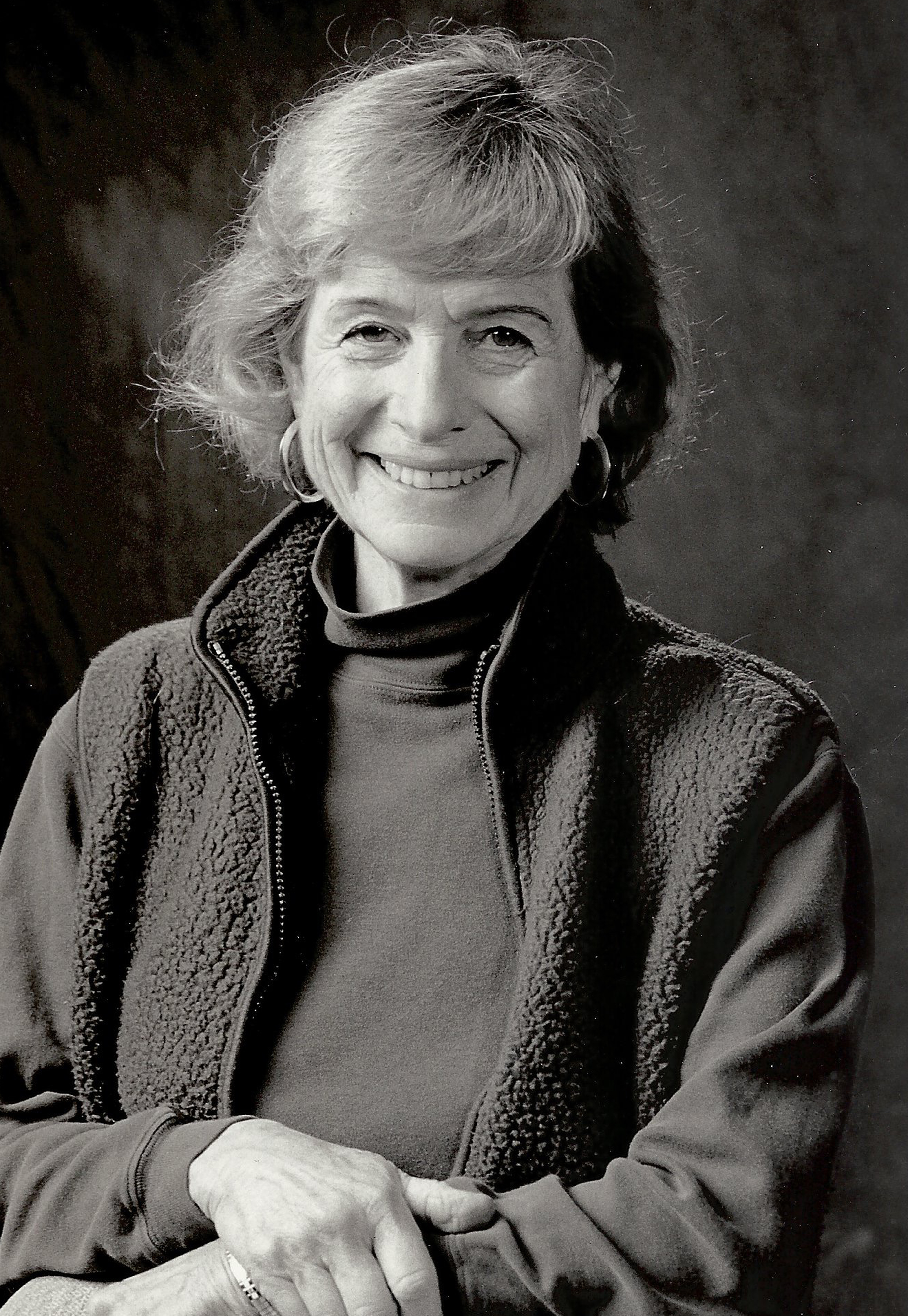 Jean Walkinshaw, producer/editor/writer